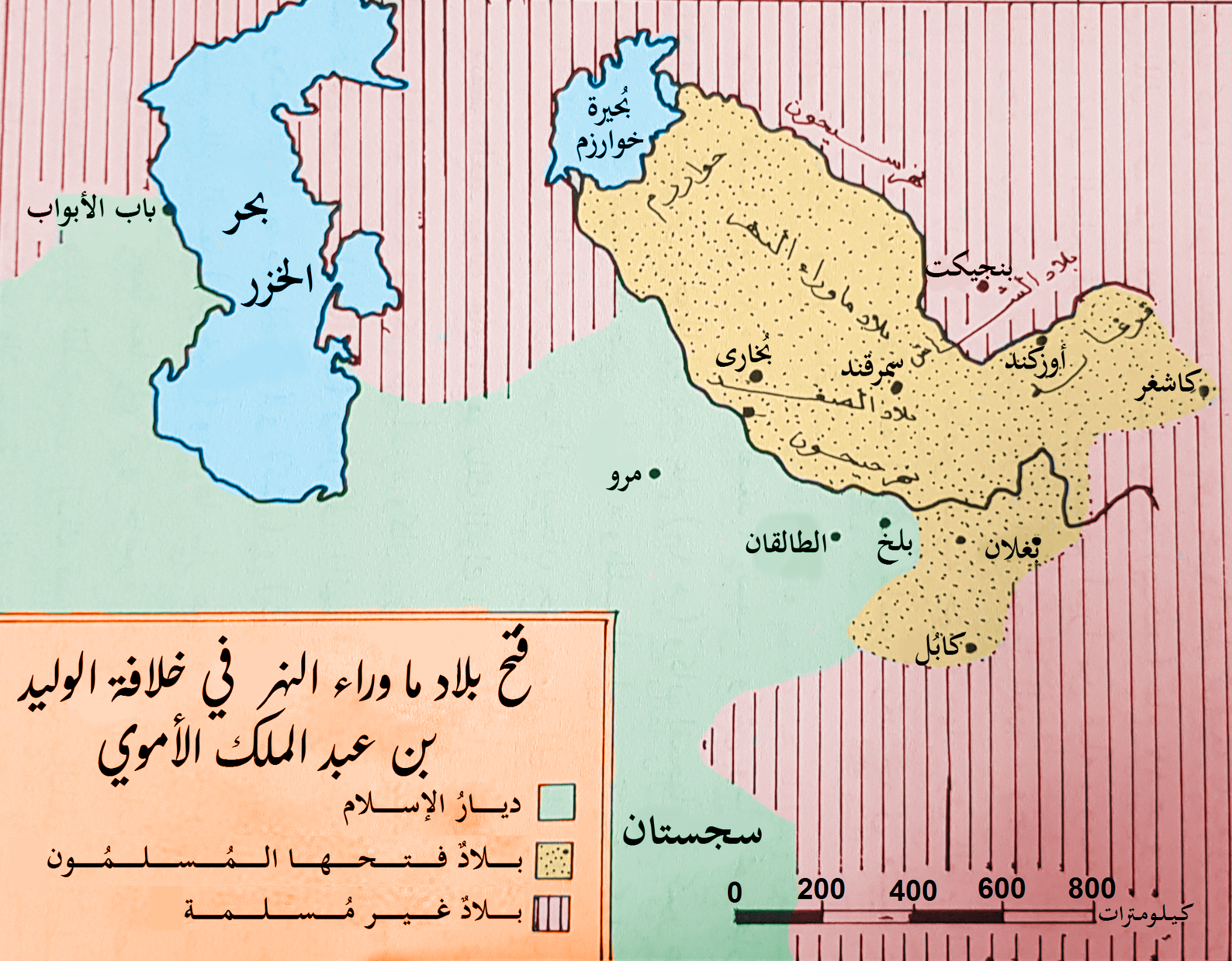 Map showing the regions that were conquered by Muslims during their Conquest of Transoxiana.